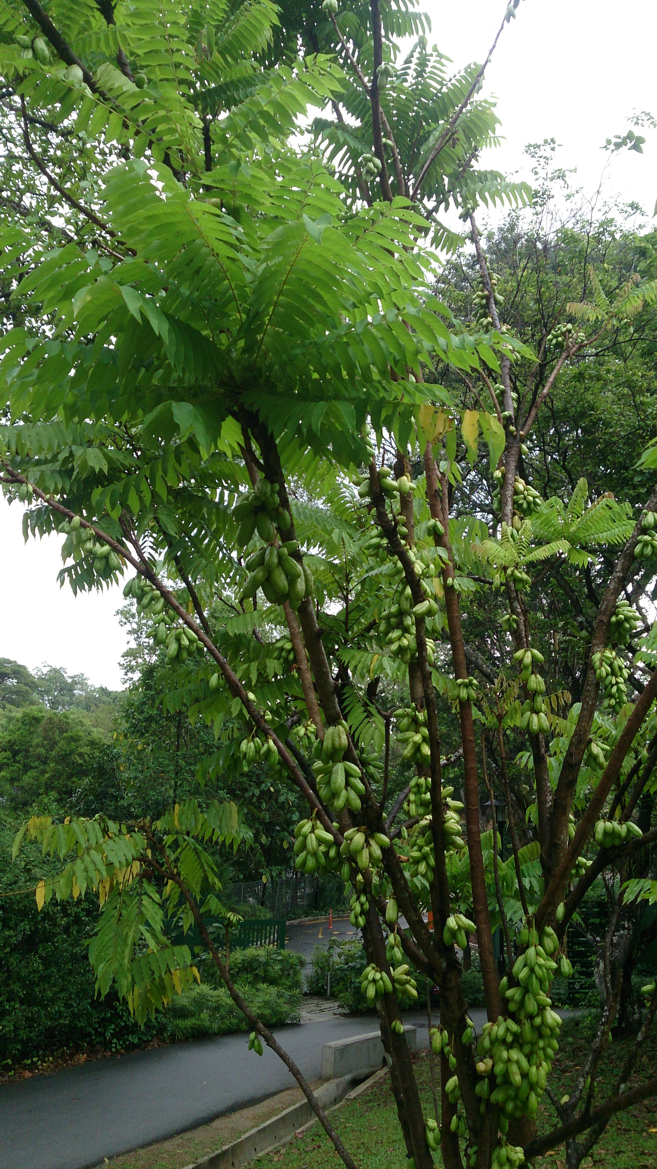 Averrhoa bilimbi. Common name: Cucumber Tree. Belimbing Wuluh (Indonesia)